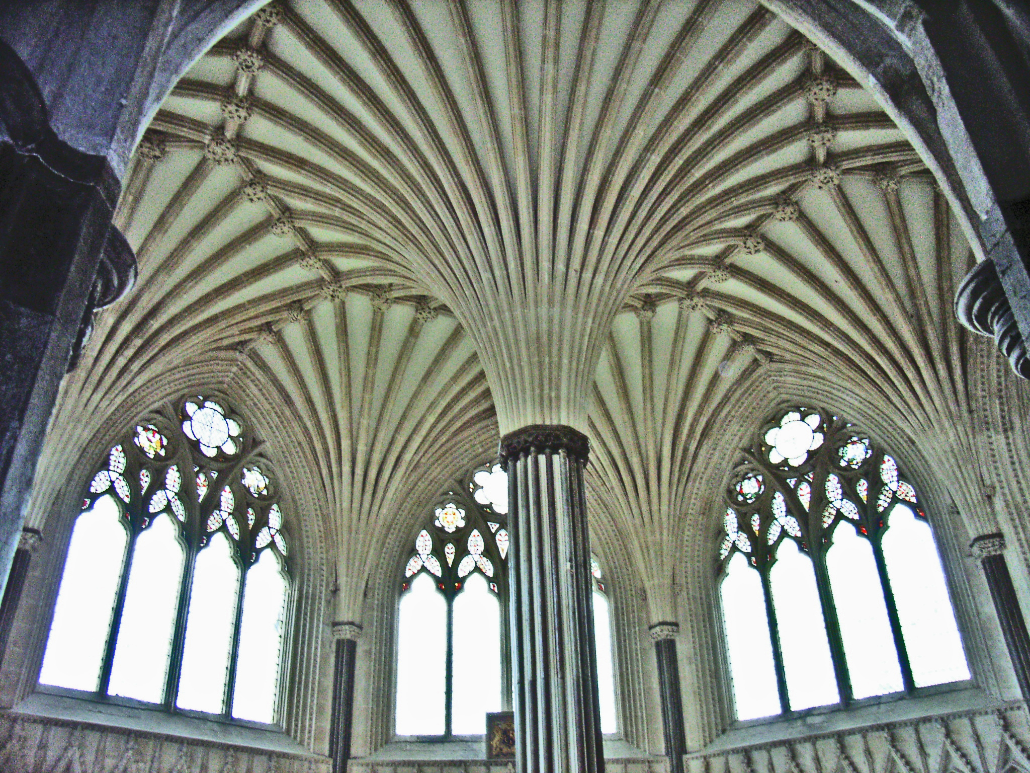 Wells Cathedral chapter house